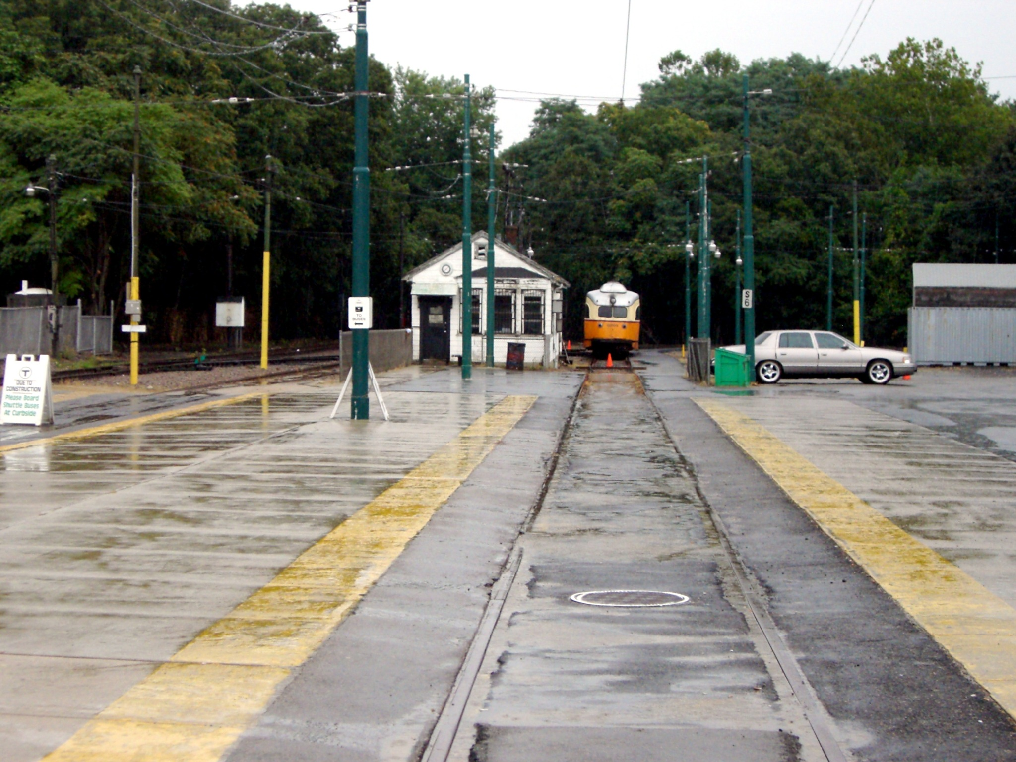 Mattapan station on the MBTA Ashmont-Mattapan High Speed Line. This picture was taken before the 2007 renovations; it faces east from the platforms.